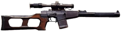 Vintorez VSS